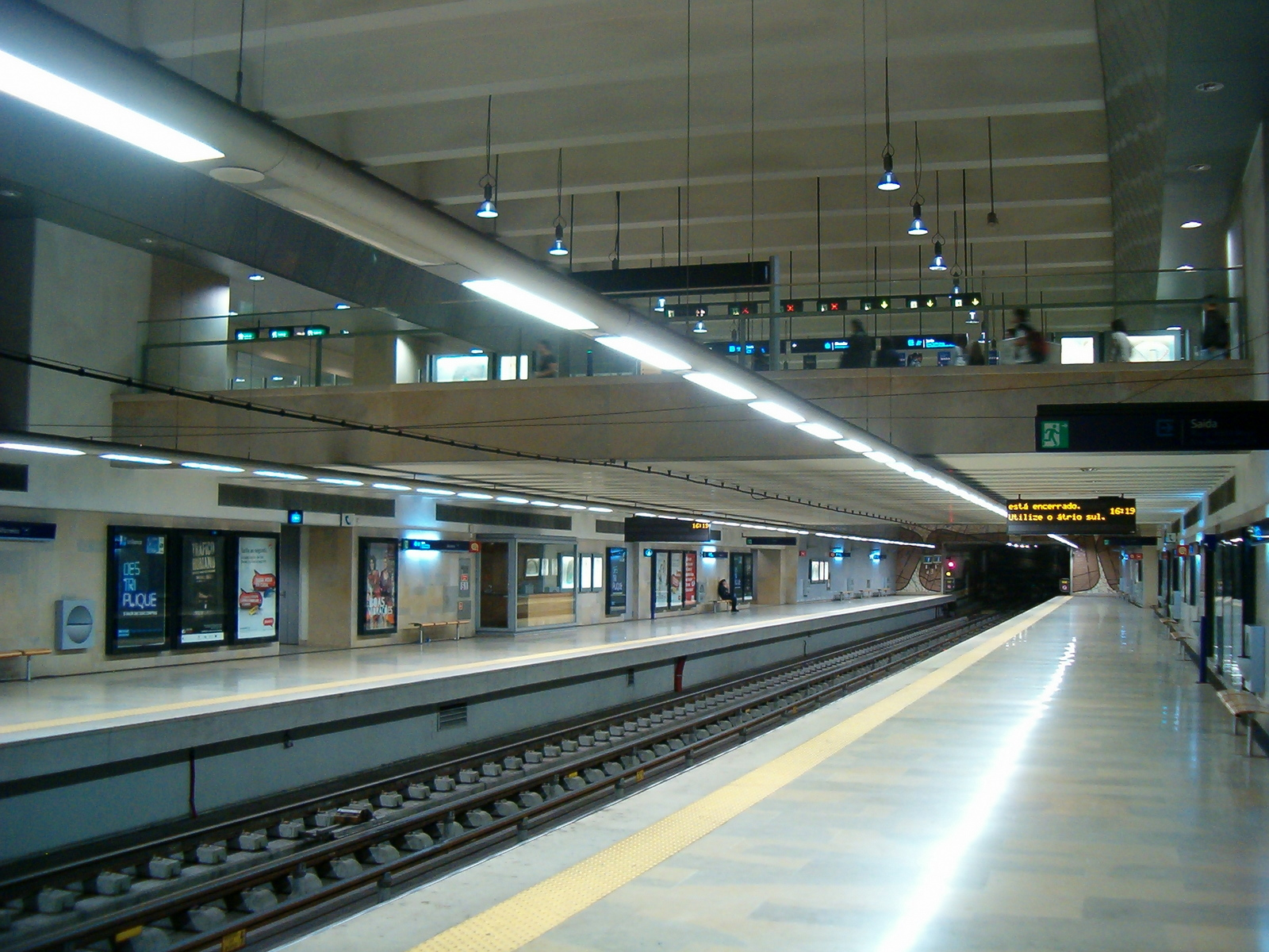 Photo of Alfornelos metro station in Lisbon (platform)